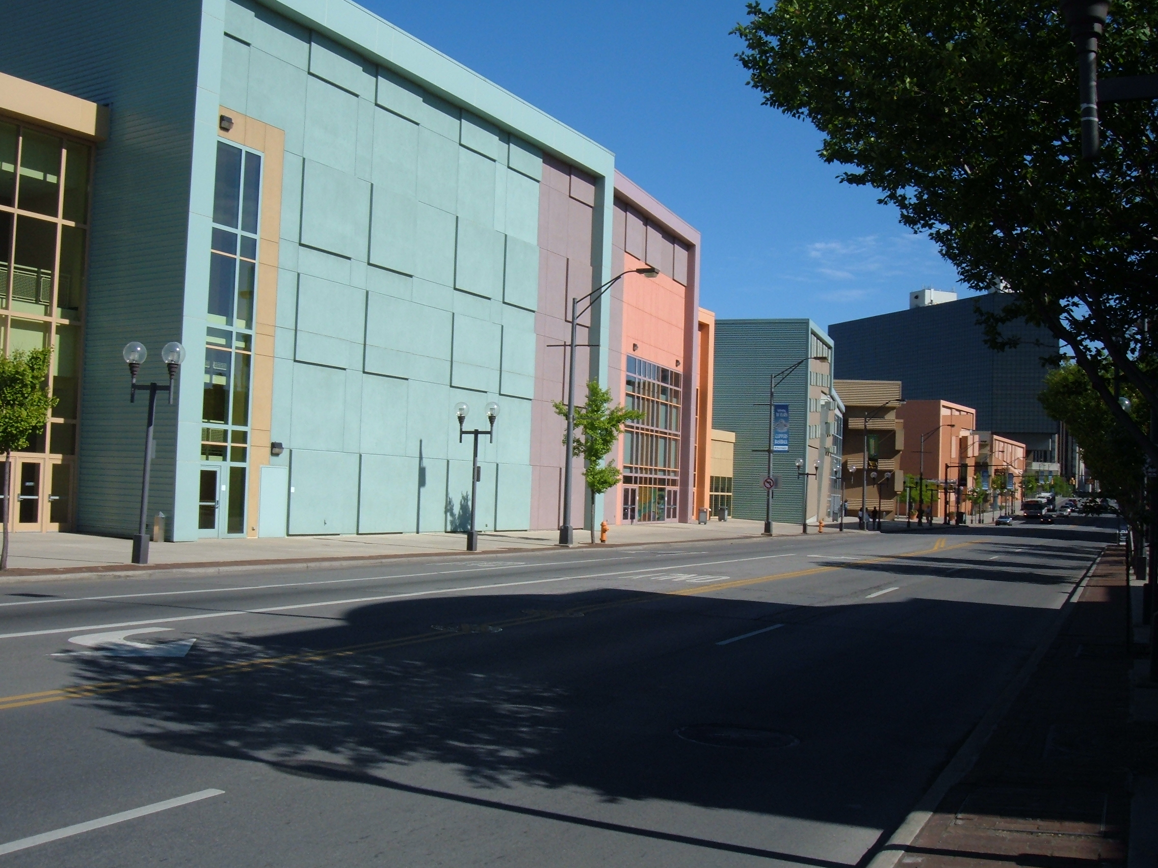 The Columbus Convention Center west facade facing High Street. Self made photo.